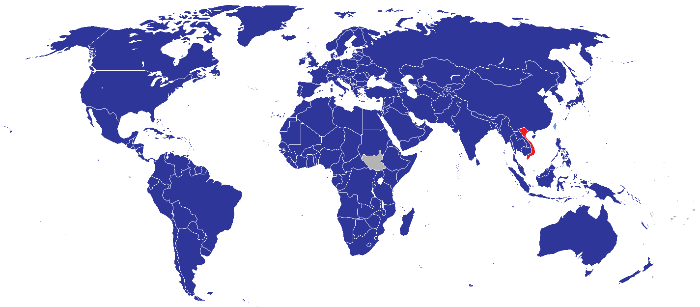 This map shows the nations Vietnam (Socialist Republic) recognizes and has Diplomatic relations with until 6/2013. (STATES OF ESTABLISHMENT OF DIPLOMATIC RELATIONS WITH THE SOCIALIST REPUBLIC OF VIET NAM) Key Socialist Republic of Vietnam Nations Vietnam recognizes and has diplomatic relations with Nations Vietnam does not have diplomatic relations with States Vietnam has unofficial relations Các nước có quan hệ ngoại giao với Việt Nam tính đến 6/2013 Chú giải Cộng hòa xã hội chủ nghĩa Việt Nam Quốc gia được Việt Nam công nhận và có quan hệ ngoại giao Quốc gia không có quan hệ ngoại giao với Việt Nam Thực thể có quan hệ ngoại giao không chính thức với Việt Nam